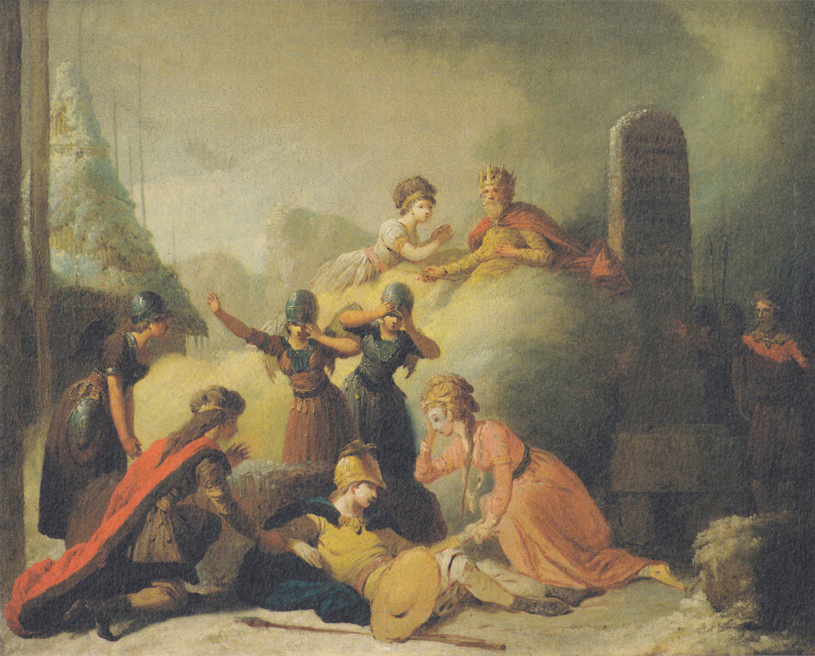 A scene from "Balders Død" by Johannes Ewald. This is the final scene of the play, as it was performed by the Royal Danish Theater in 1779.